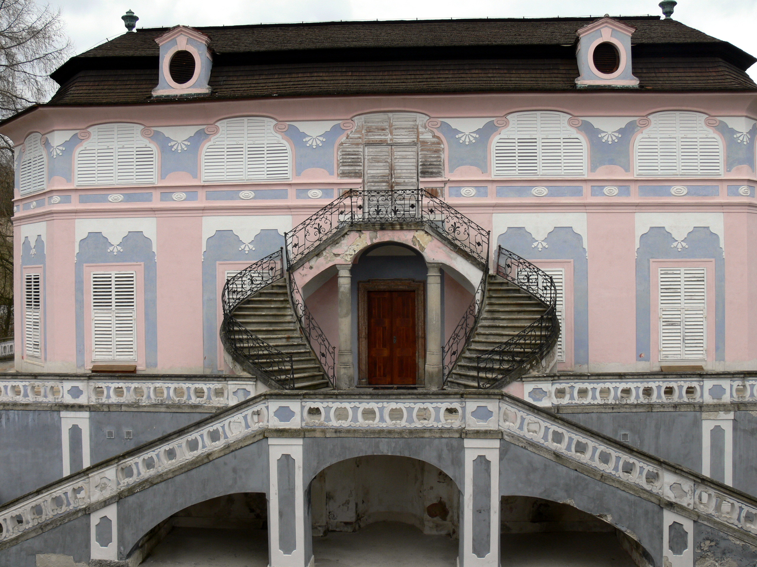 Český Krumlov - Castle gardens. Bellaria pavillon ( 1690-1692 )